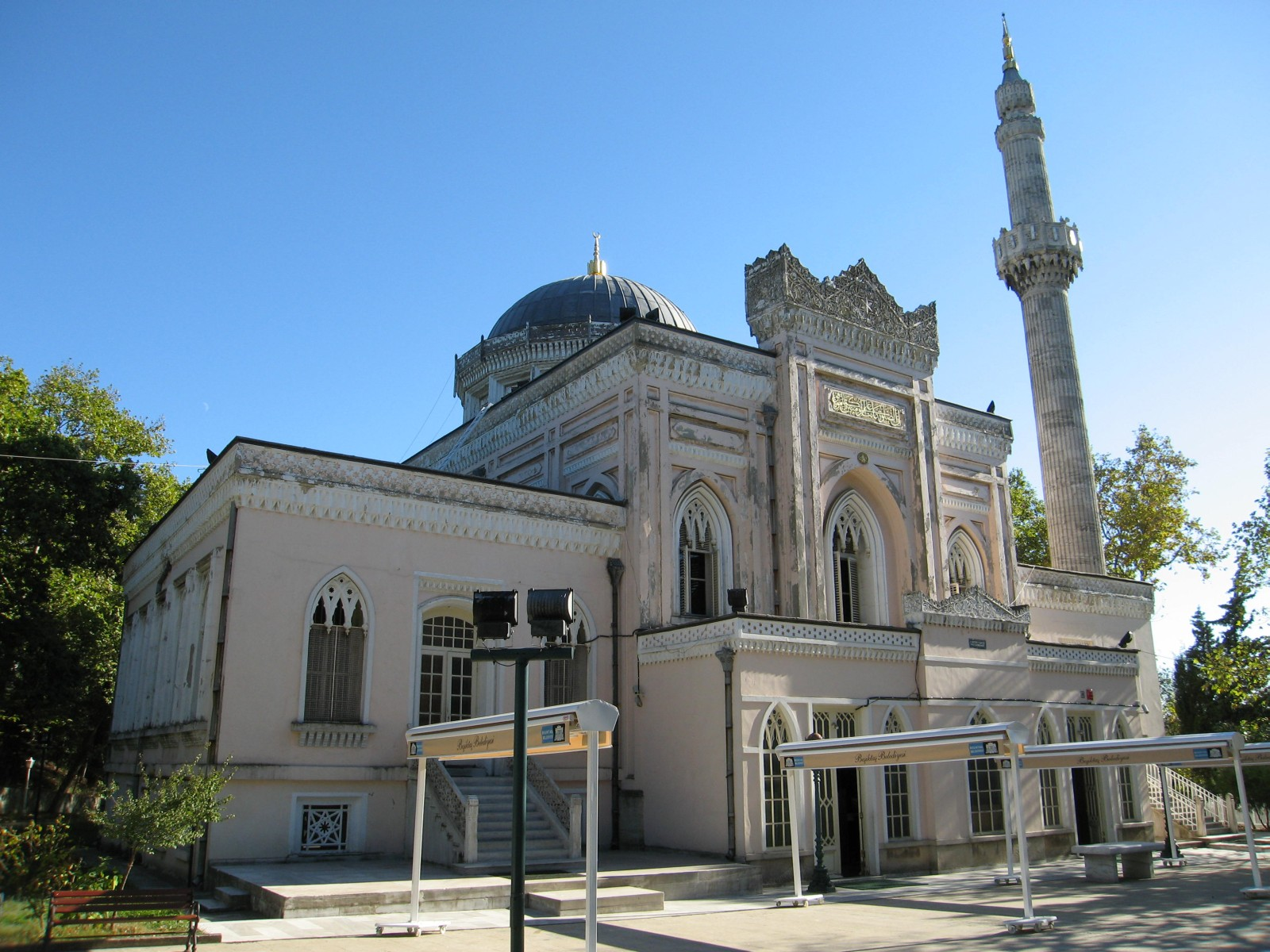 An overall view of the Yıldız Hamidiye Mosque located in Yıldız neighbourhood of Beşiktaş district in Istanbul, Turkey.